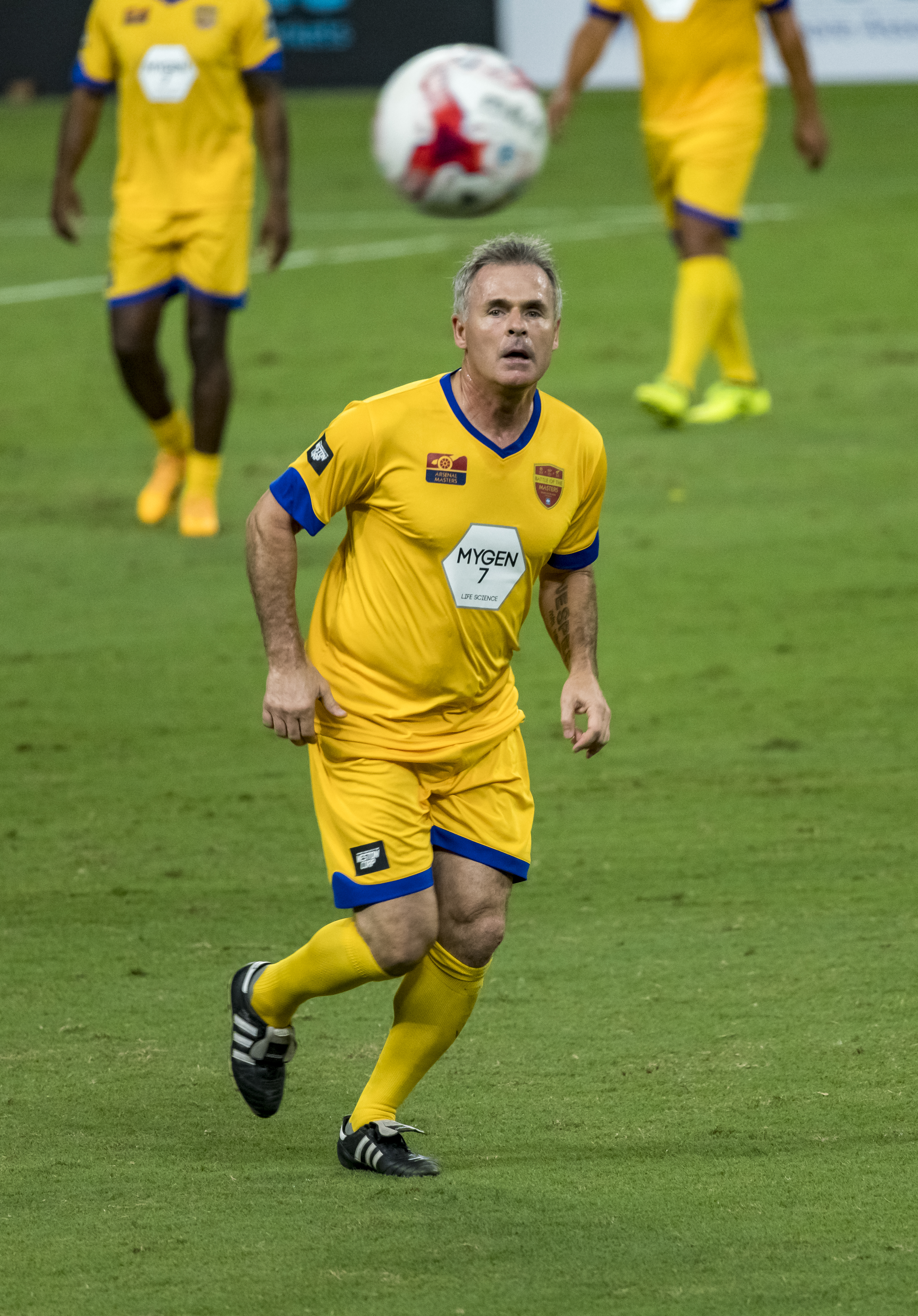 Anders Limpar 2017 arsenal masters singapore national stadium